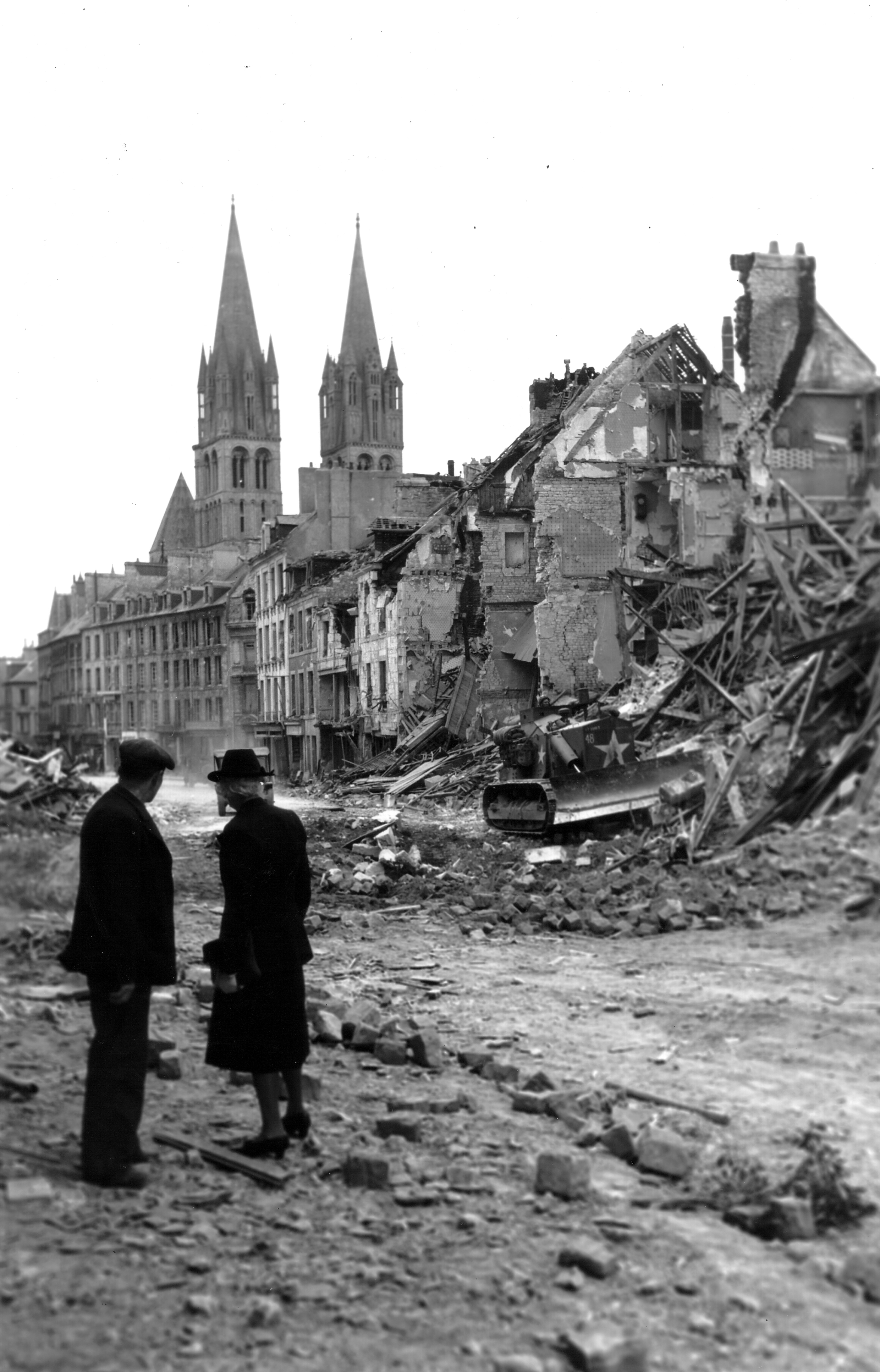 A pair of residents watch a Canadian bulldozer clearing away the ruins of destroyed houses, rue de Bayeux, Caen. In the background, the two towers of the Abbaye aux Hommes remain intact.